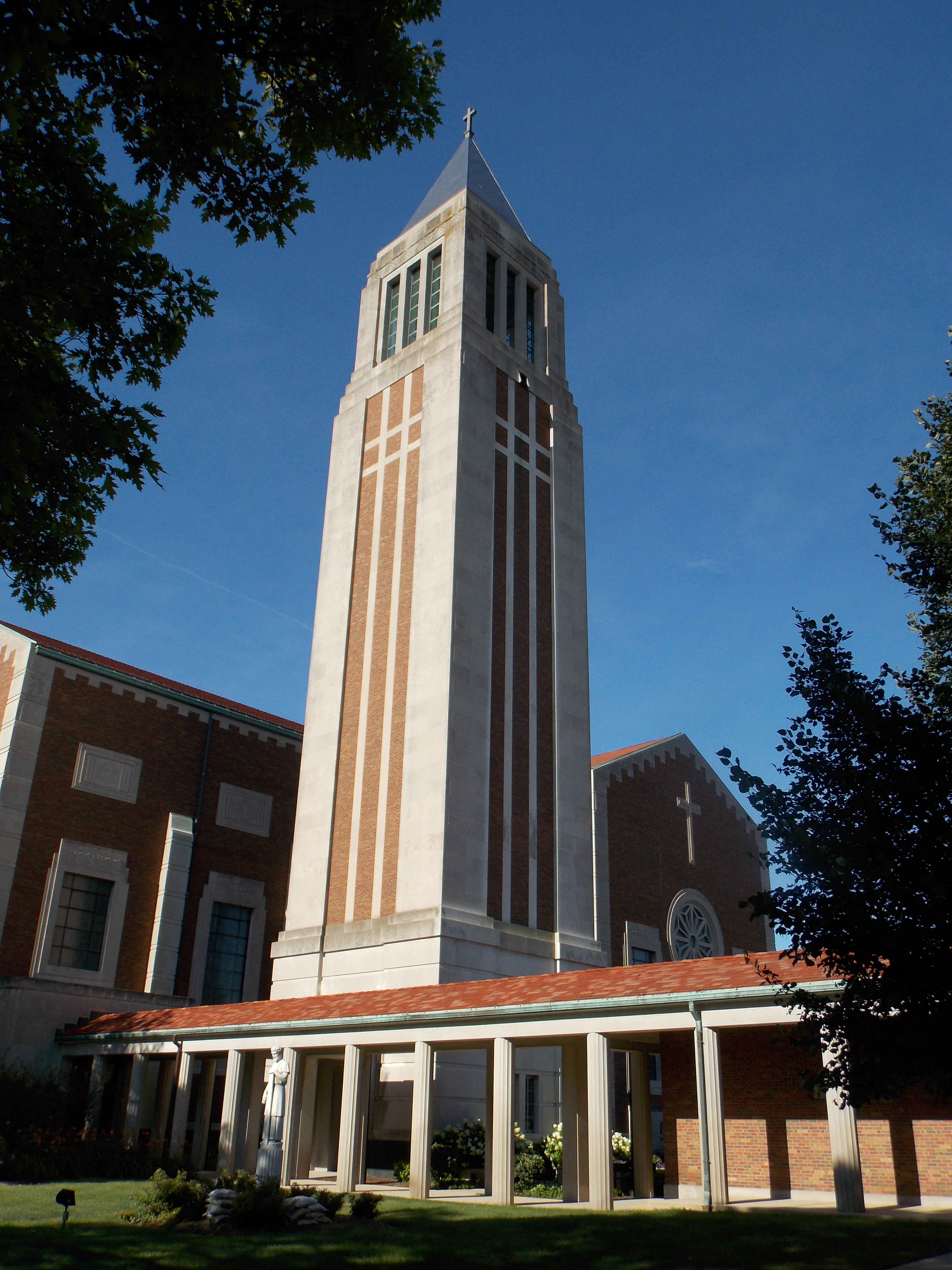 The Cathedral of St. Raymond Nonnatus is the seat of the Catholic Diocese of Joliet in Illinois.